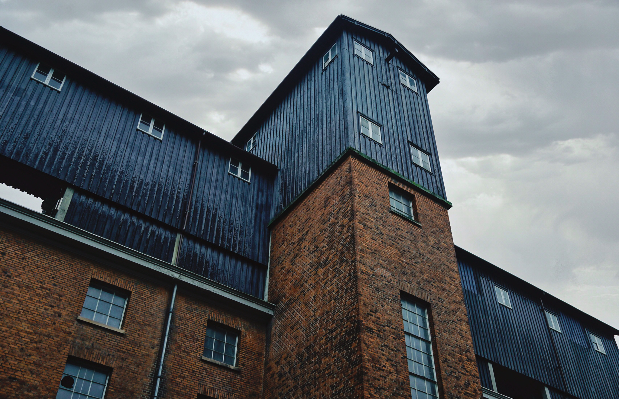 Keddelhallen, Carlsberg District